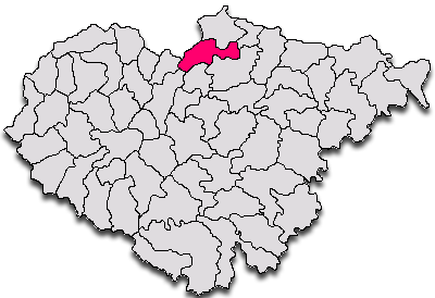 Map Salaj County Romania